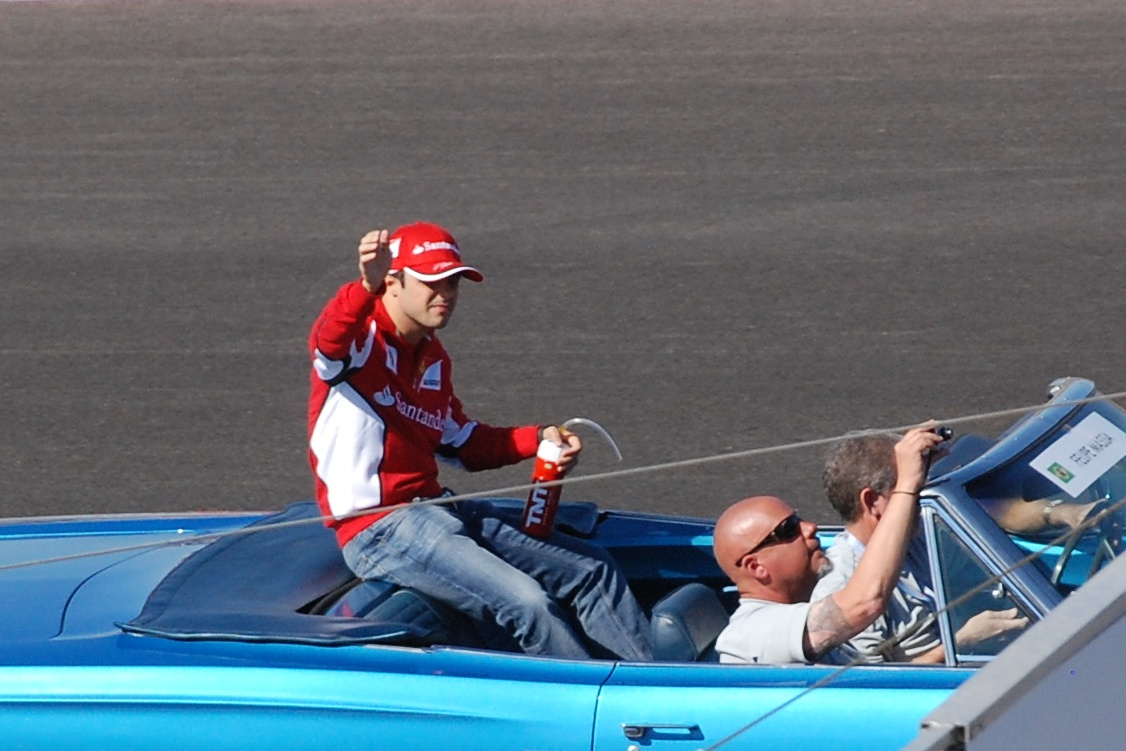 Felipe Massa, United States Grand Prix, Austin 2012